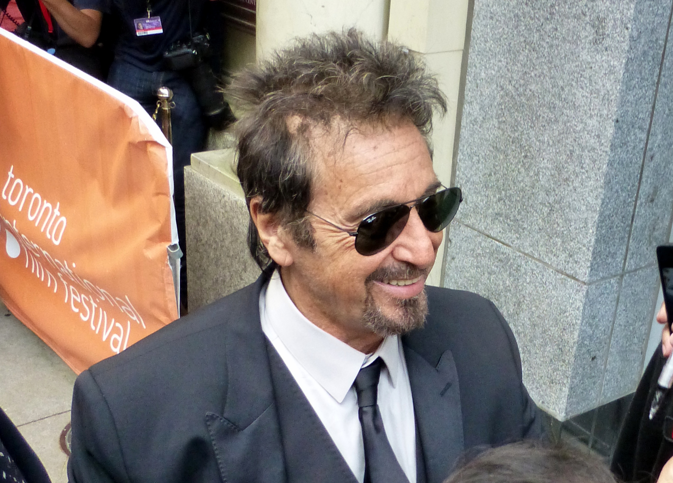 Al Pacino at the premiere of Manglehorn, 2014 Toronto Film Festival